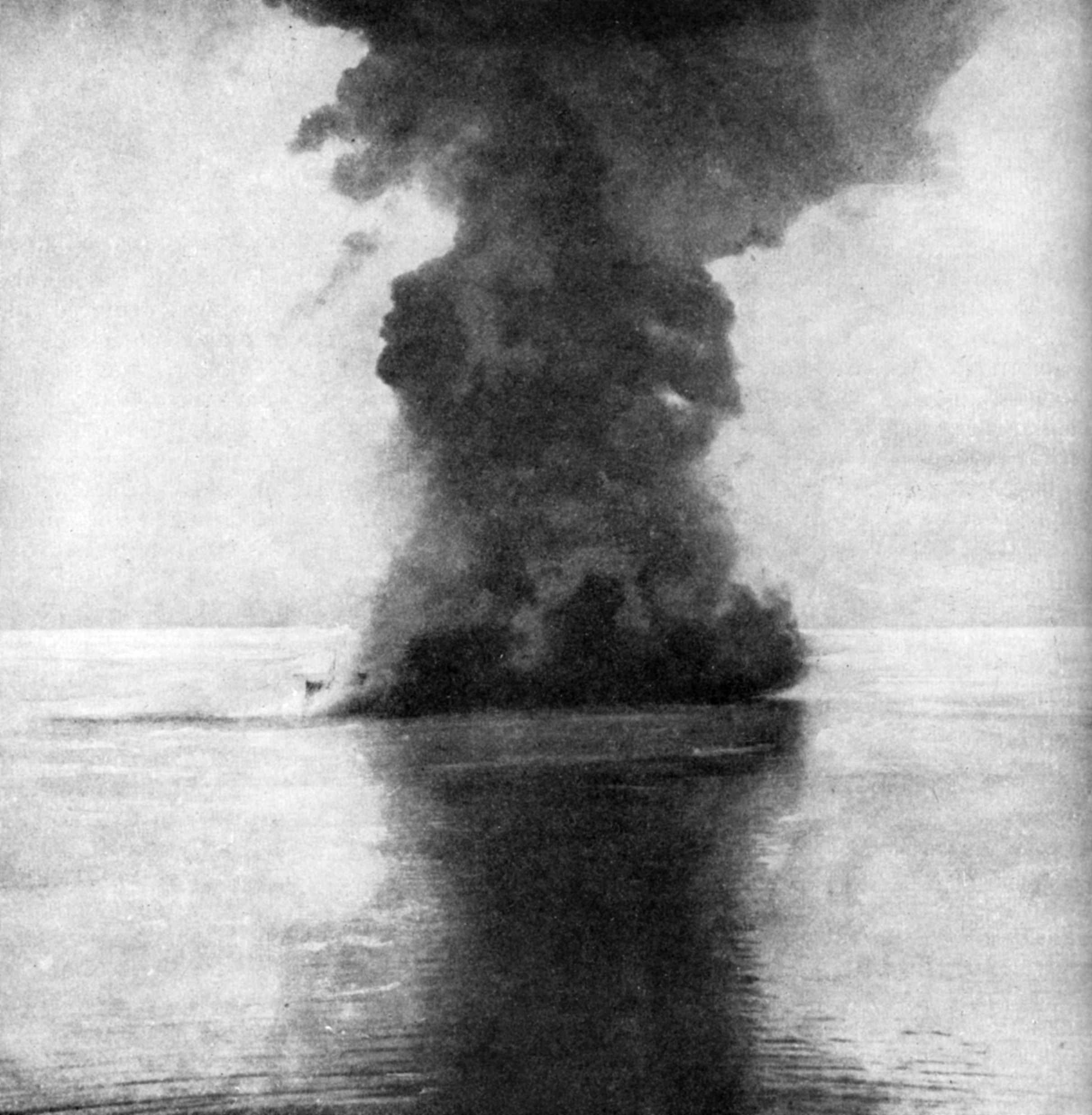 Russian gunboat Korietz in the process of exploding . Feb 8 1904.